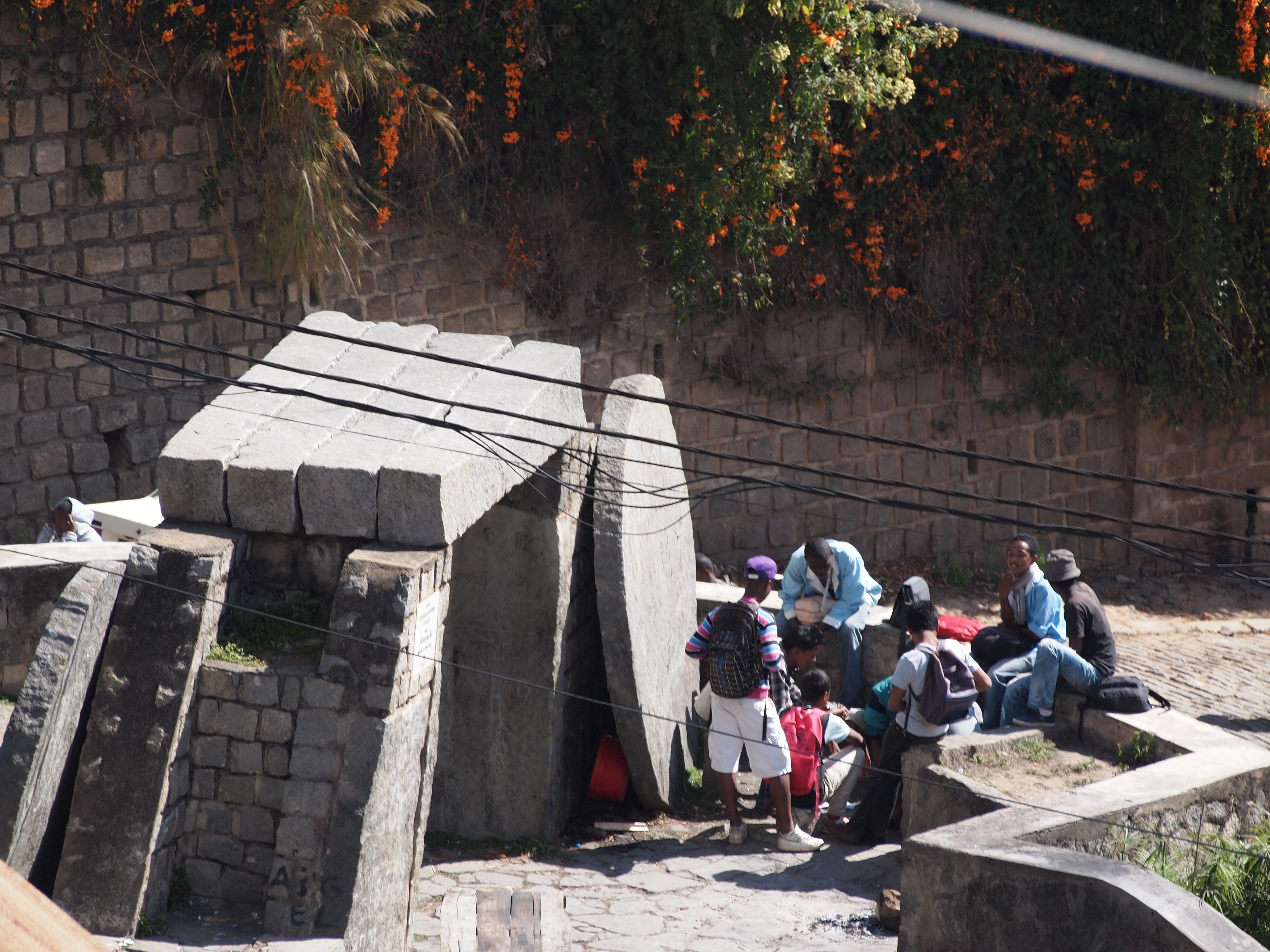 Antananarivo Madagascar old city gate